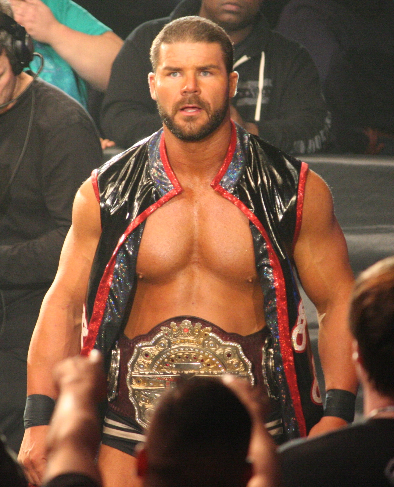 Bobby Roode as TNA King of the Mountain Champion at Bound for Glory in 2015.